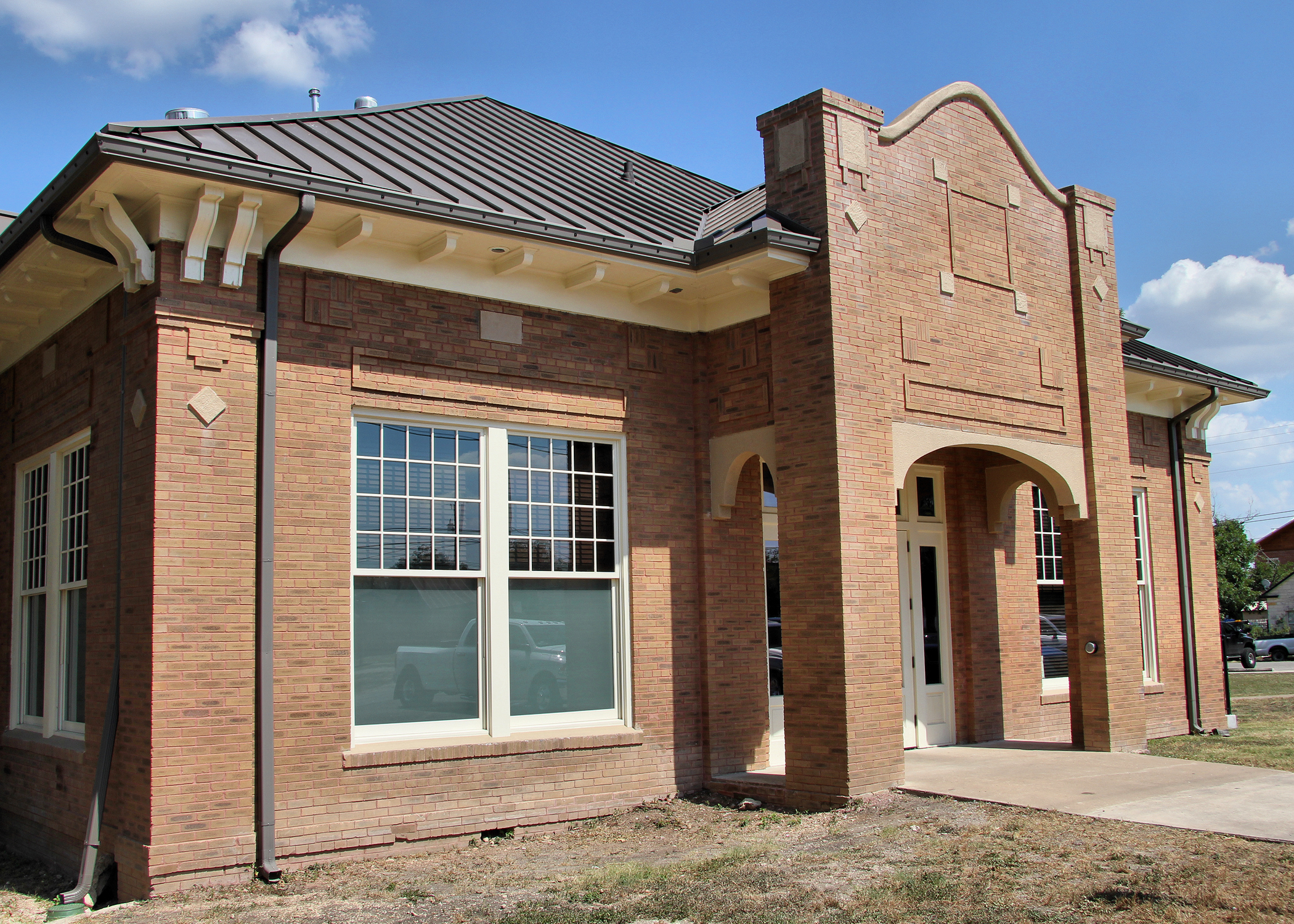 Kyle City Hall in Kyle, Texas, United States. The building was listed on The National Register of Historic Places on May 22, 2002.